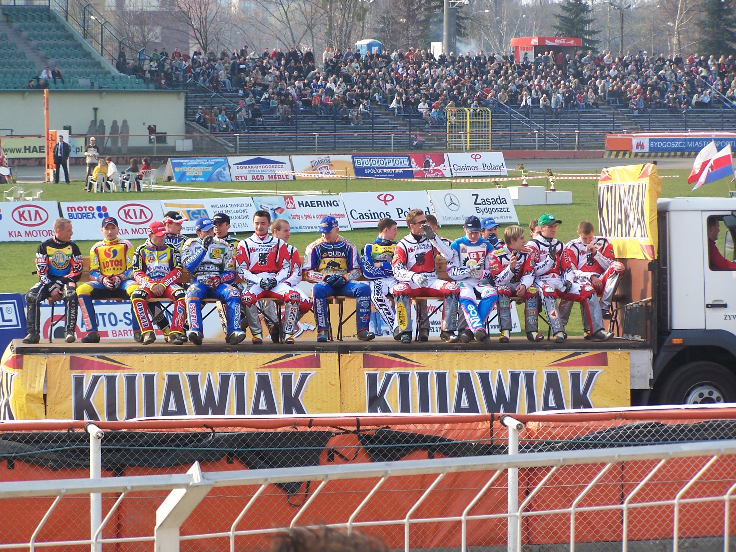 en:2007 Mieczysław Połukard Criterium of Polish Speedway Leagues Aces start list